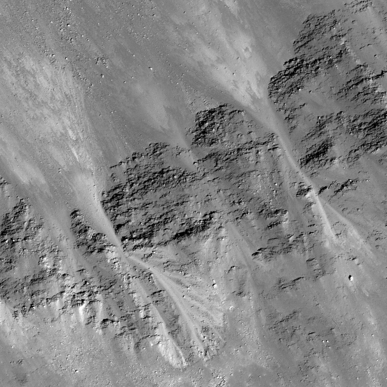 Layers of mare basalt affected the paths of granular material that flowed down the crater wall. The top of the image is down-slope. LROC NAC M157418698R, image width is 546 m, pixel scale is 0.4 m/px [NASA/GSFC/Arizona State University].